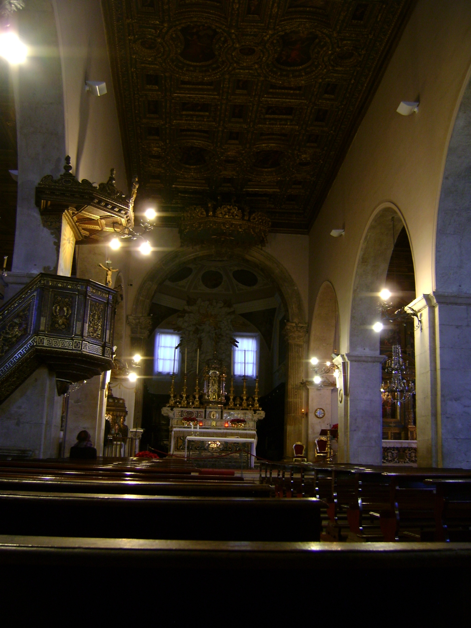 The interior of the basilica of Santa Maria del Colle, Pescocostanzo, province of L'Aquila, Abruzzo